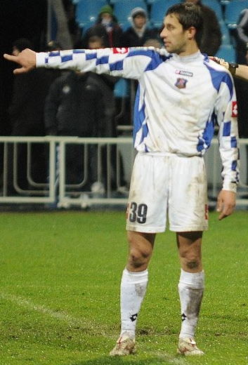 Serhiy Matyukhin